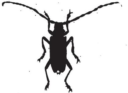 The first picture of Monochamus urussovi